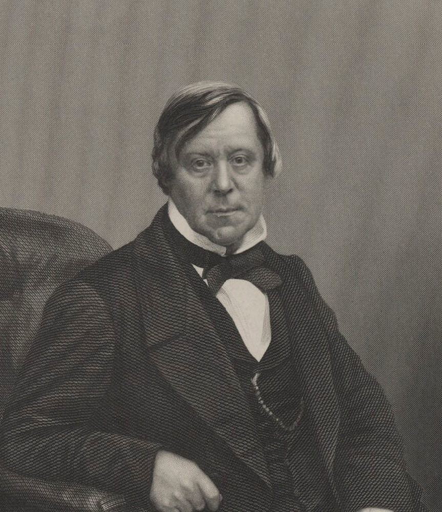 Photograph of William Scholefield (1809-1867) of Birmingham, England, businessman and Liberal politician